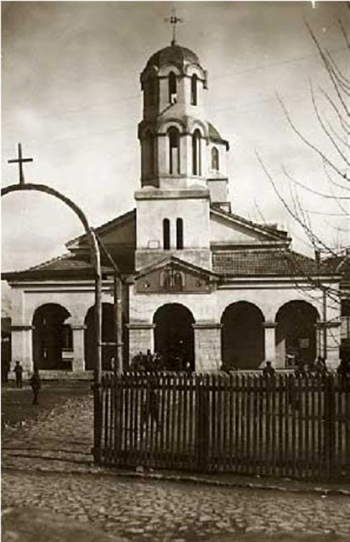 Old photo of Sts. Constantine and Helena Church in Skopje, Macedonia